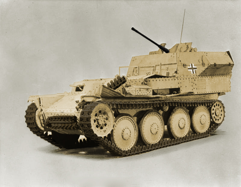 Flakpanzer 38(t) in possession of the British Imperial War Museums